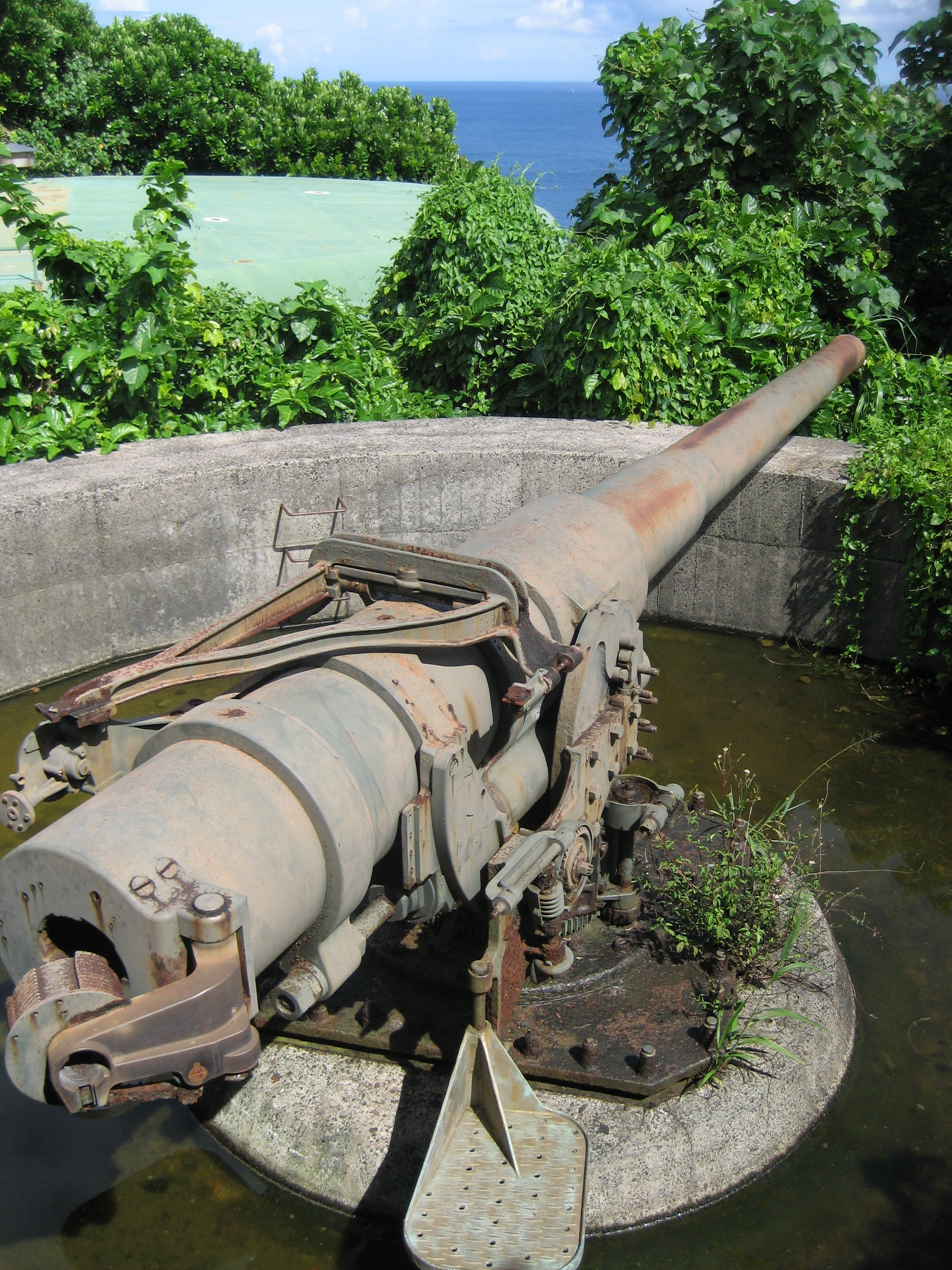 WW II fortification hidden above harbour mouth